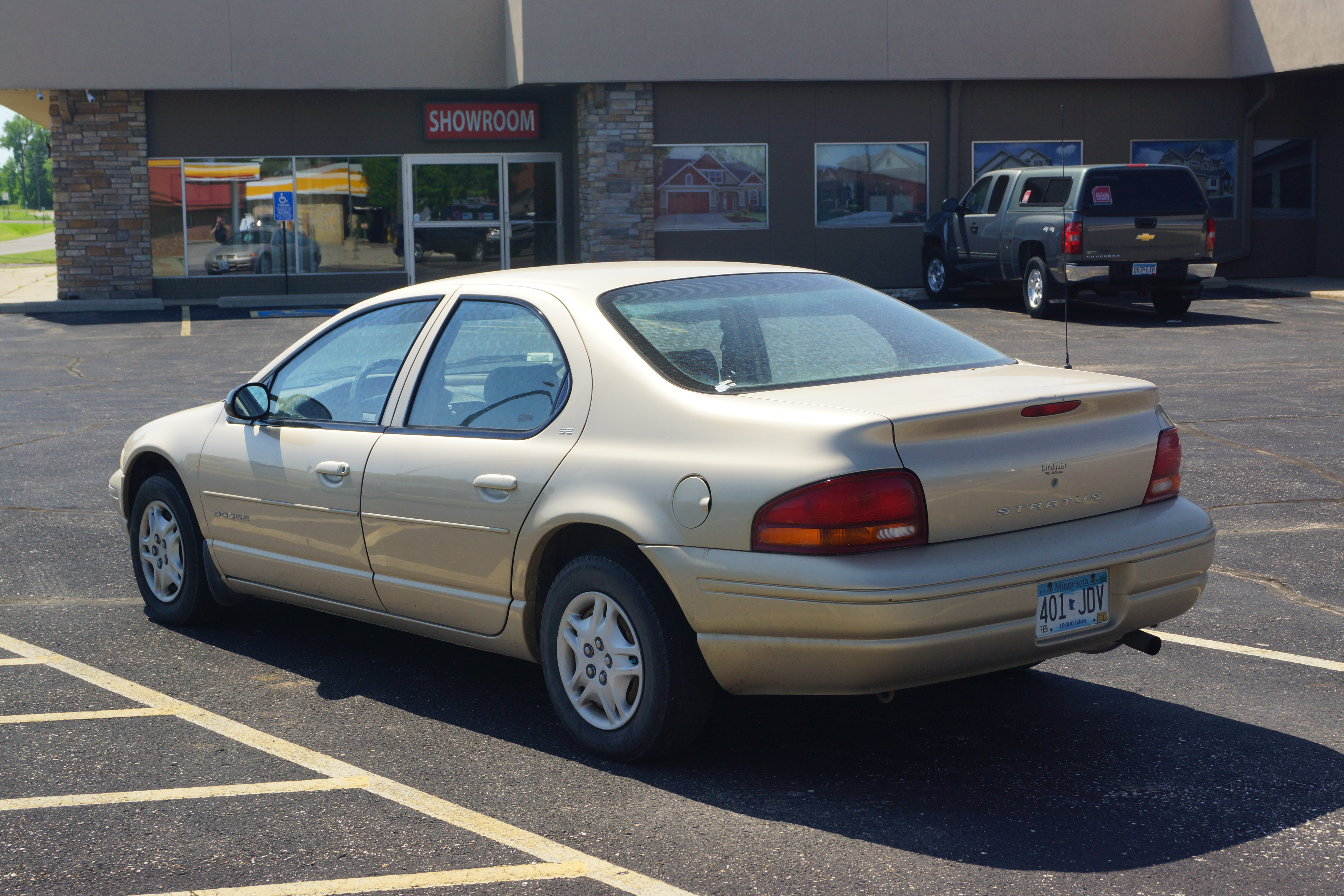 Click here for more car pictures at my Flickr site.